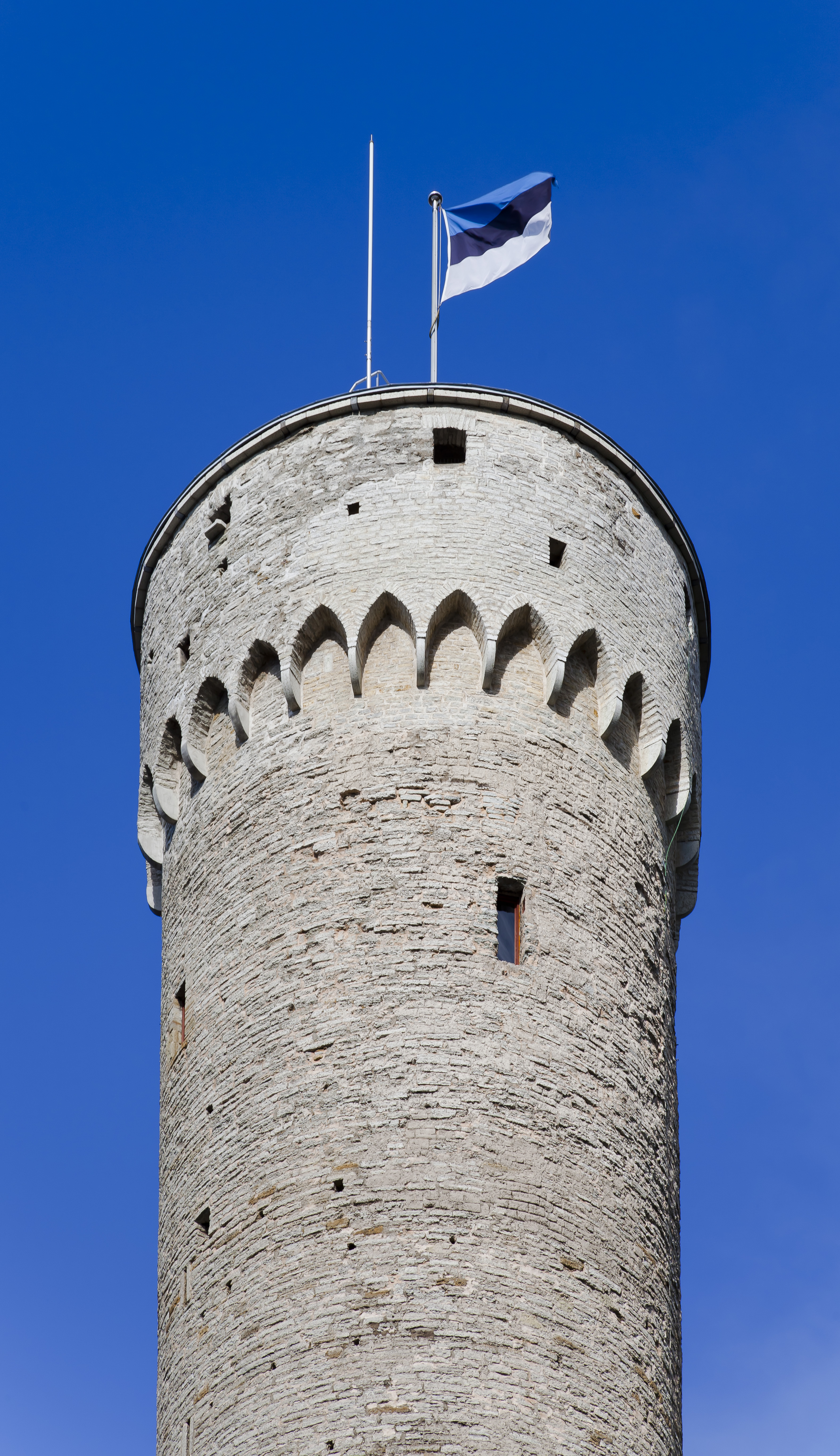 Pikk Hermann, Toompea castle, Tallinn, Estonia